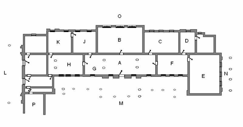 Planta de West Wycombe Park